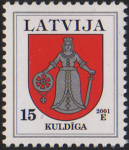 Latvian postage stamp definitive depicting the Kuldīga town coat of arms.